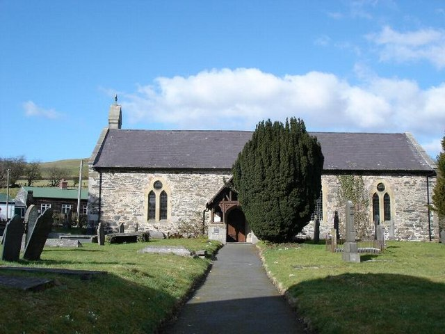 St. Sannan church Llansannan. The parish church of St. Sannan in the village of the same name